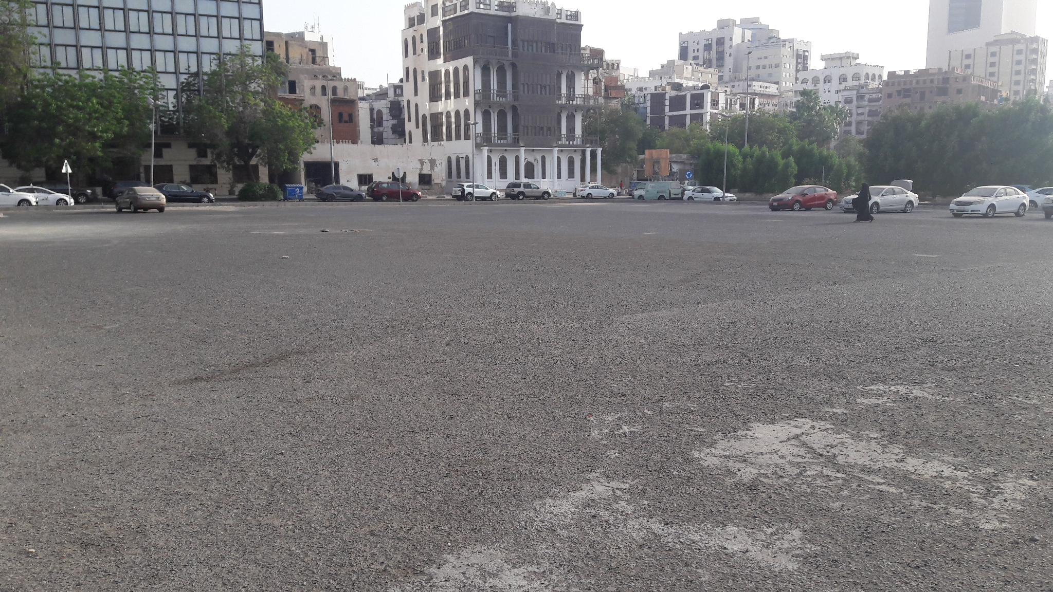 Qishla Jeddah, Old Jeddah